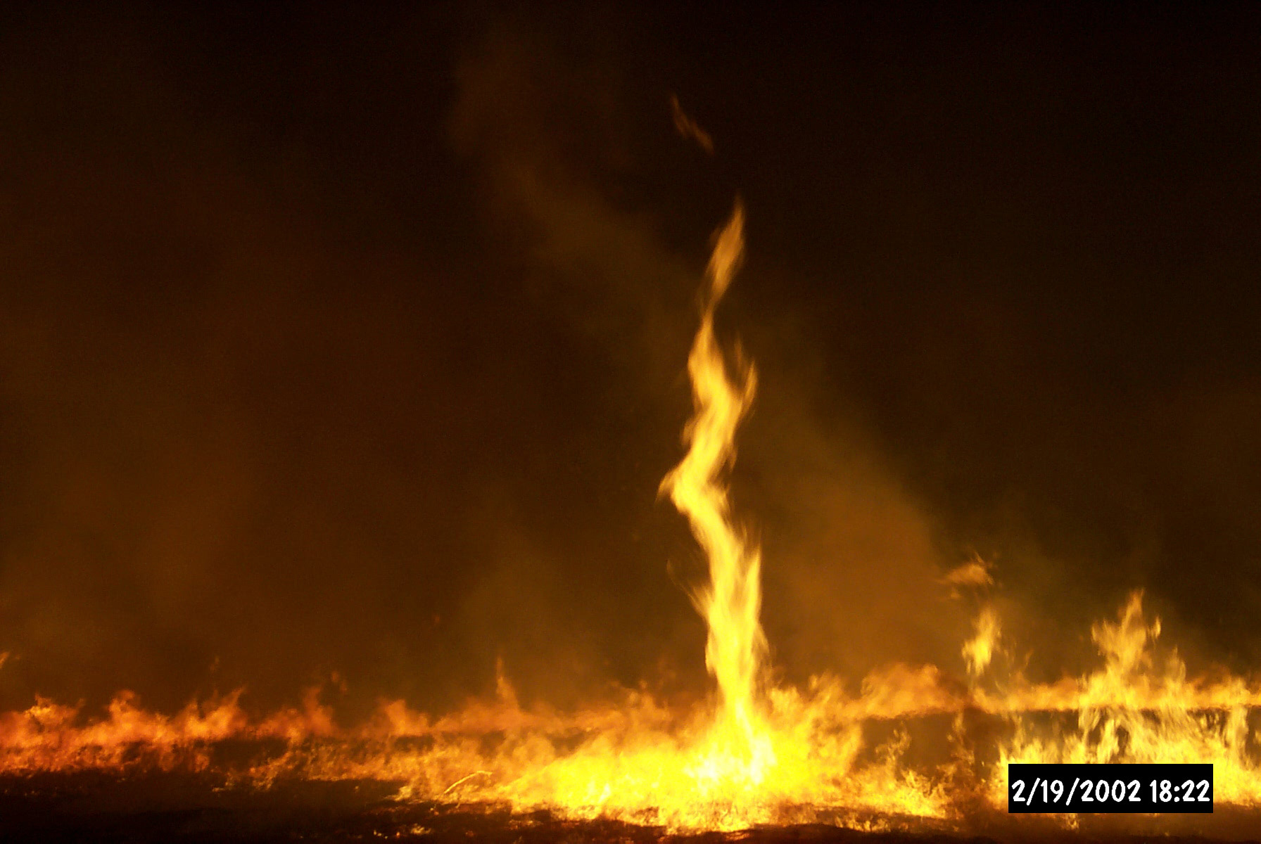 US Fish and Wildlife Service photo of fire whirl.